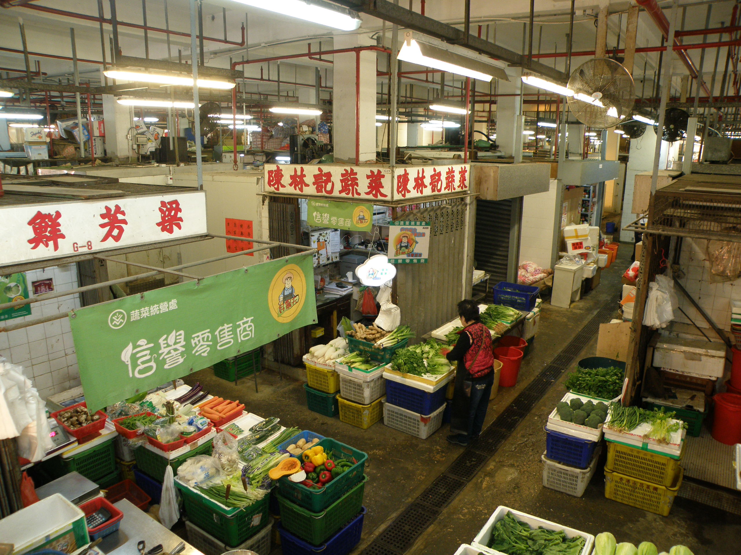 Nam Shan Market in Shek Kip Mei, Hong Kong.